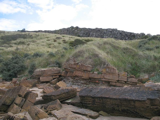 Igneous intrusion The rock on the beach is a sandstone, but above are dark basaltic rocks. The proximity of igneous rocks to sandstone is a common feature on the coast between Prestonpans and North Berwick.